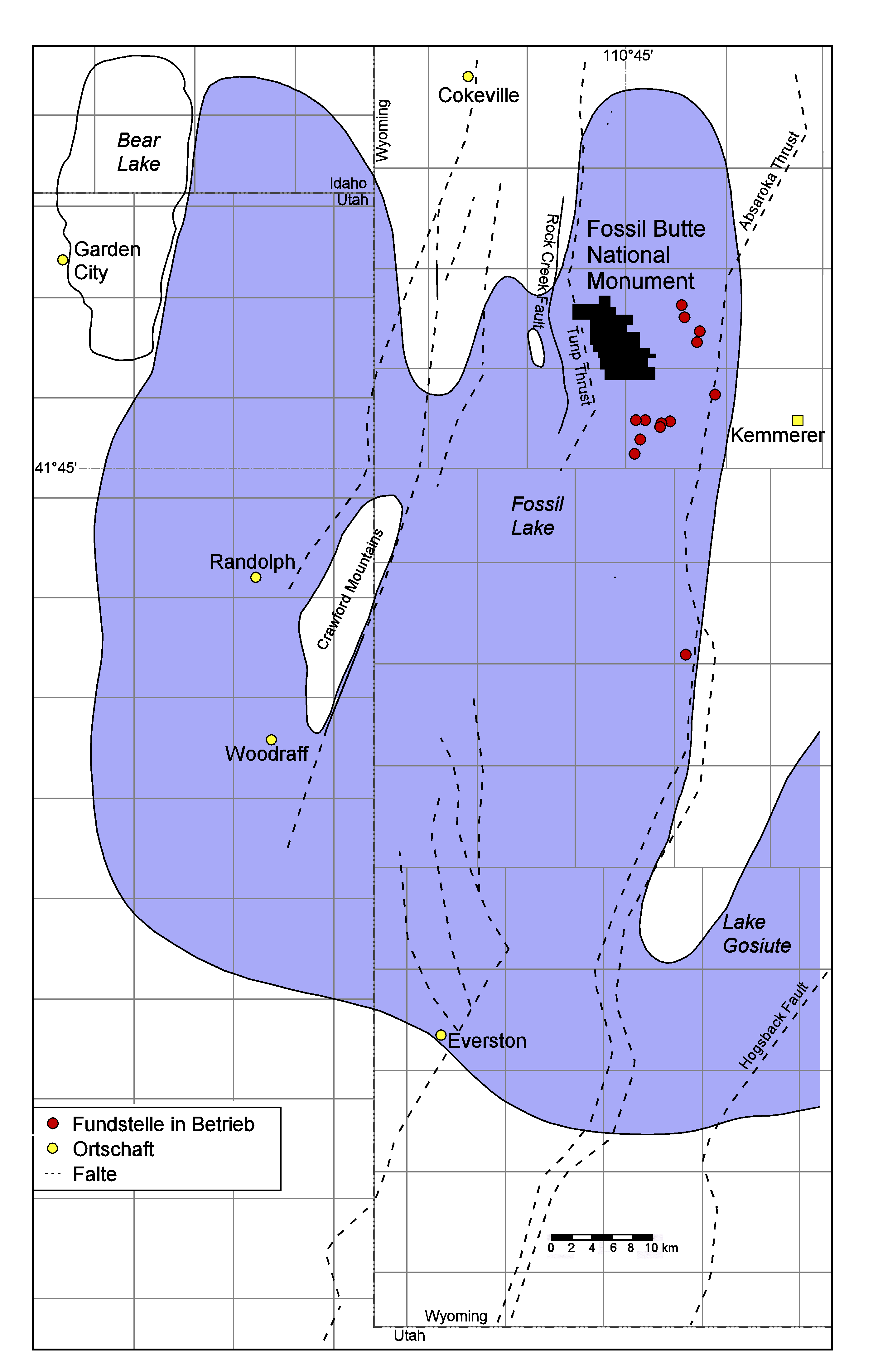 Size and shape of Fossil Lake, drawn after: H. Paul Buchheim, Robert A. Cushman Jr. and Roberto E. Biaggi: Stratigraphic revision of the Green River Formation in Fossil Basin, Wyoming: Overfilled to underfilled lake evolution. Rocky Mountain Geology 46 (2), 2011, pp. 165–181 (p. 166)